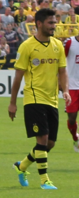 İlkay Gündoğan 2013